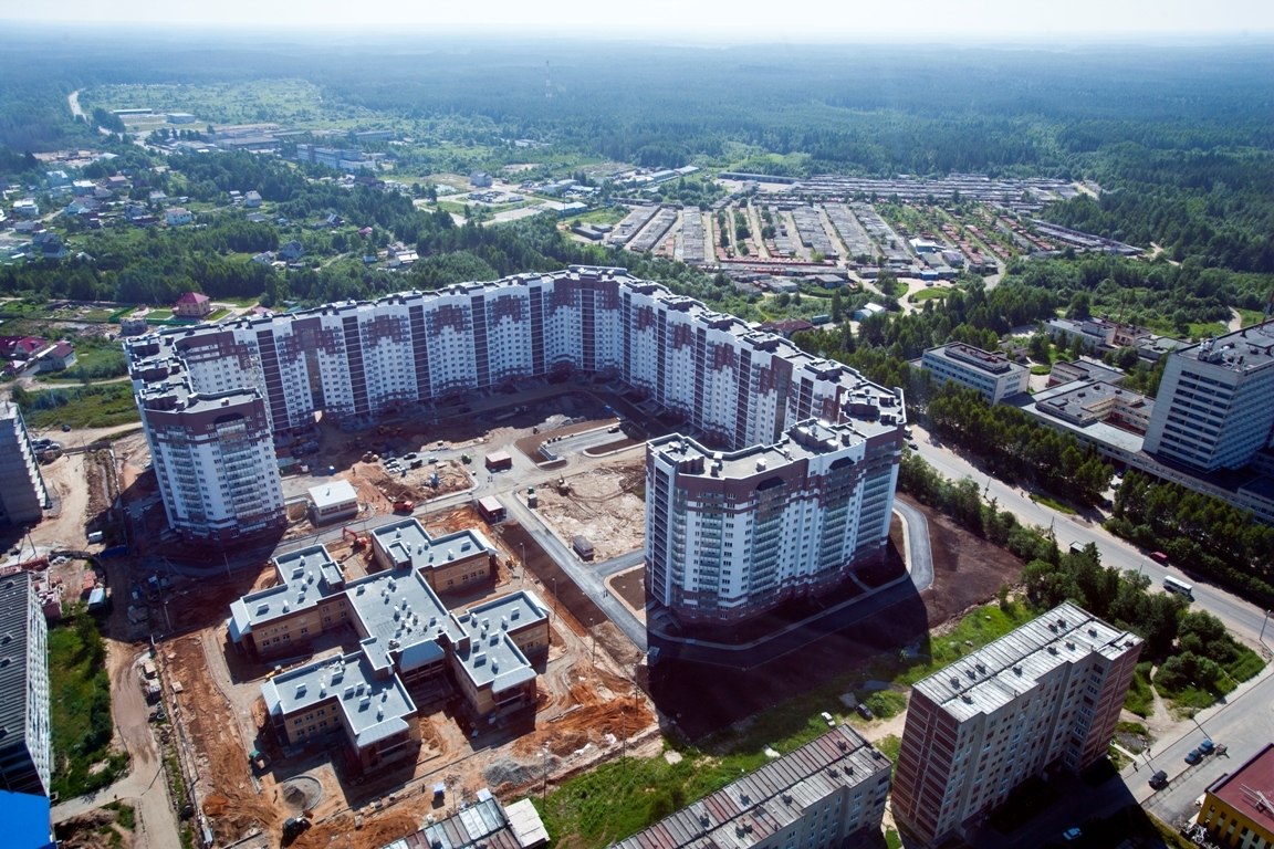 New houses constructed by ICT Group for employees in Tikhvin